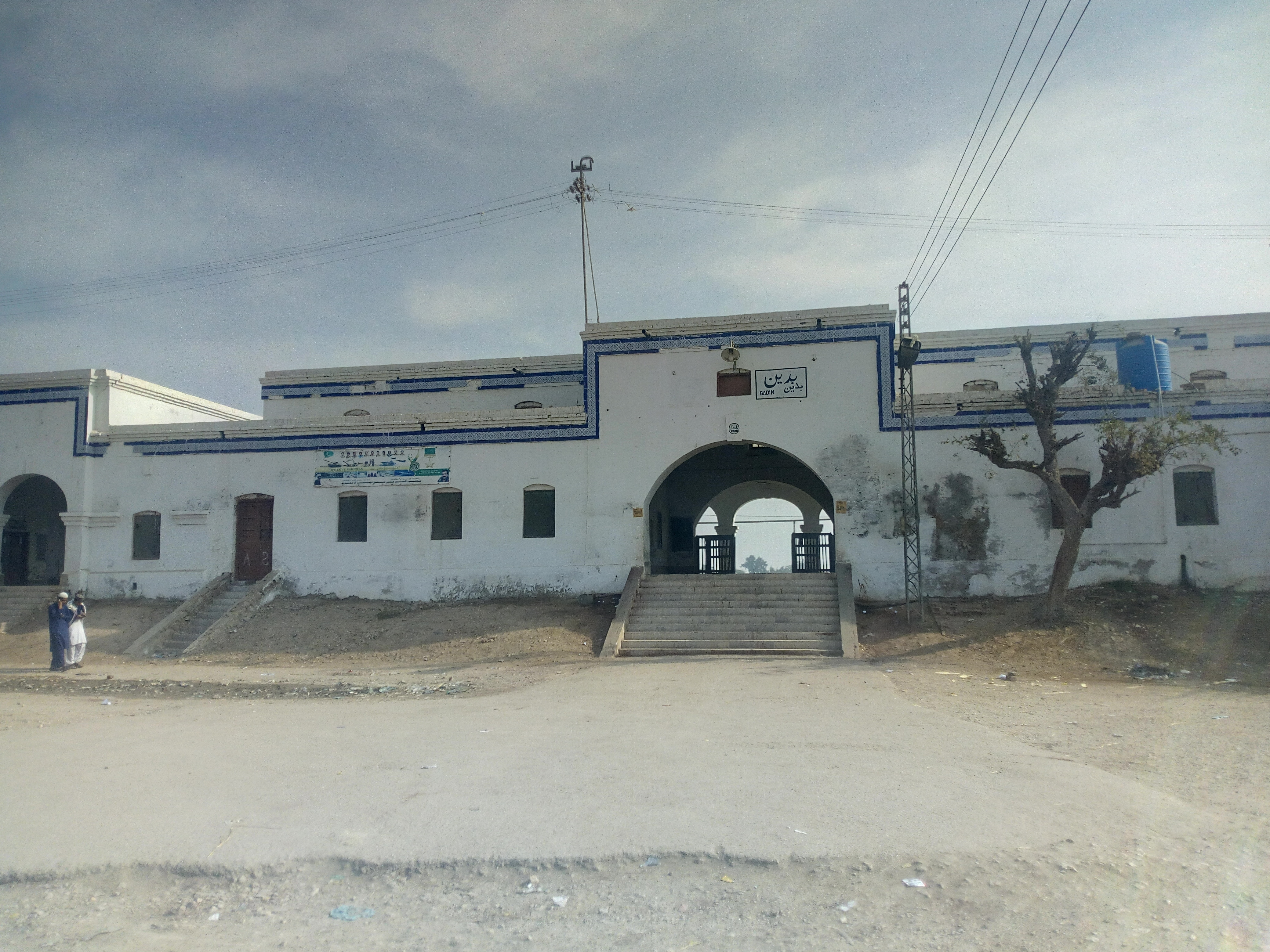 Badin Railway Junction frontview